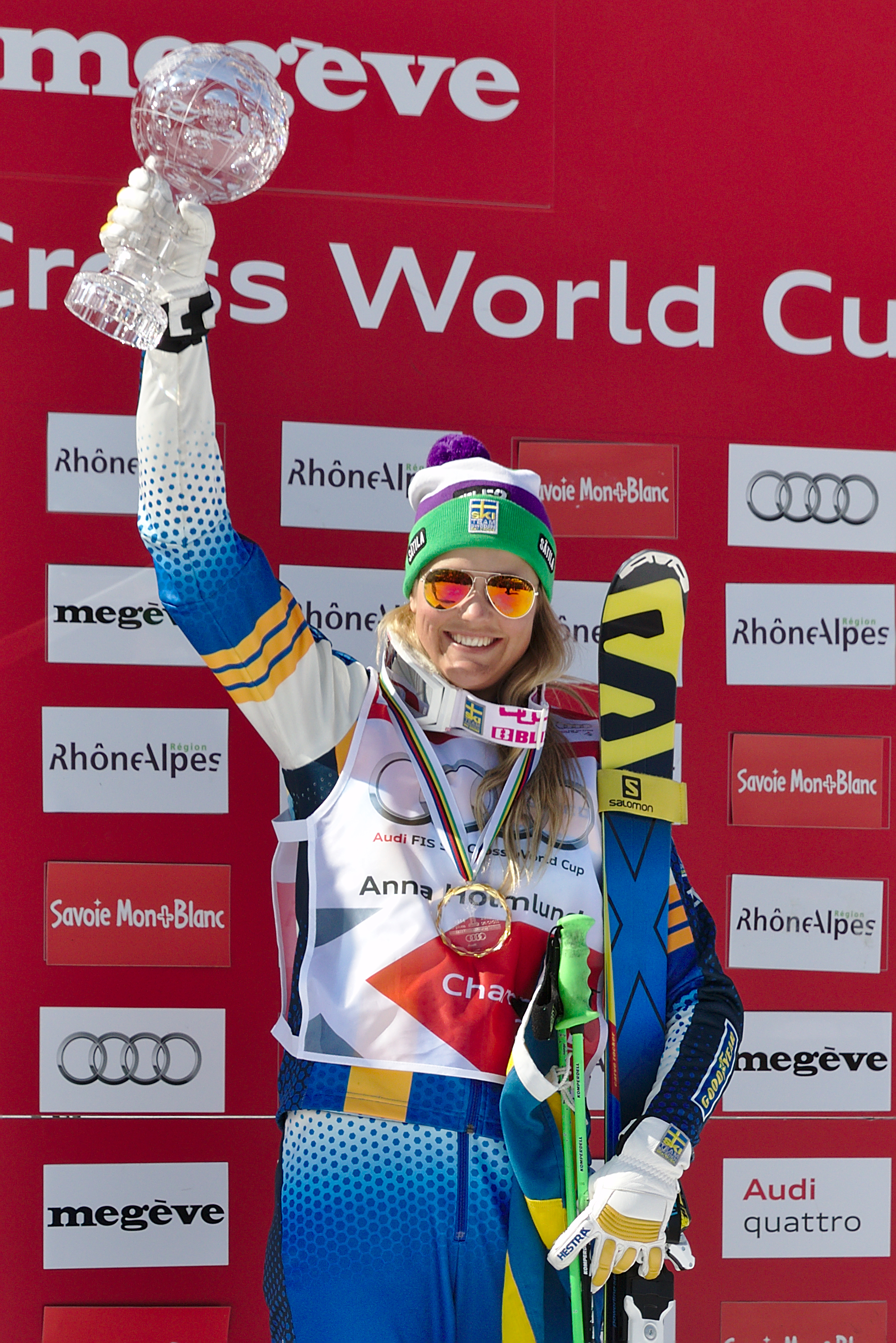 FIS Ski Cross World Cup 2015 Finals - Megève - 20150314 - Anna Holmlund